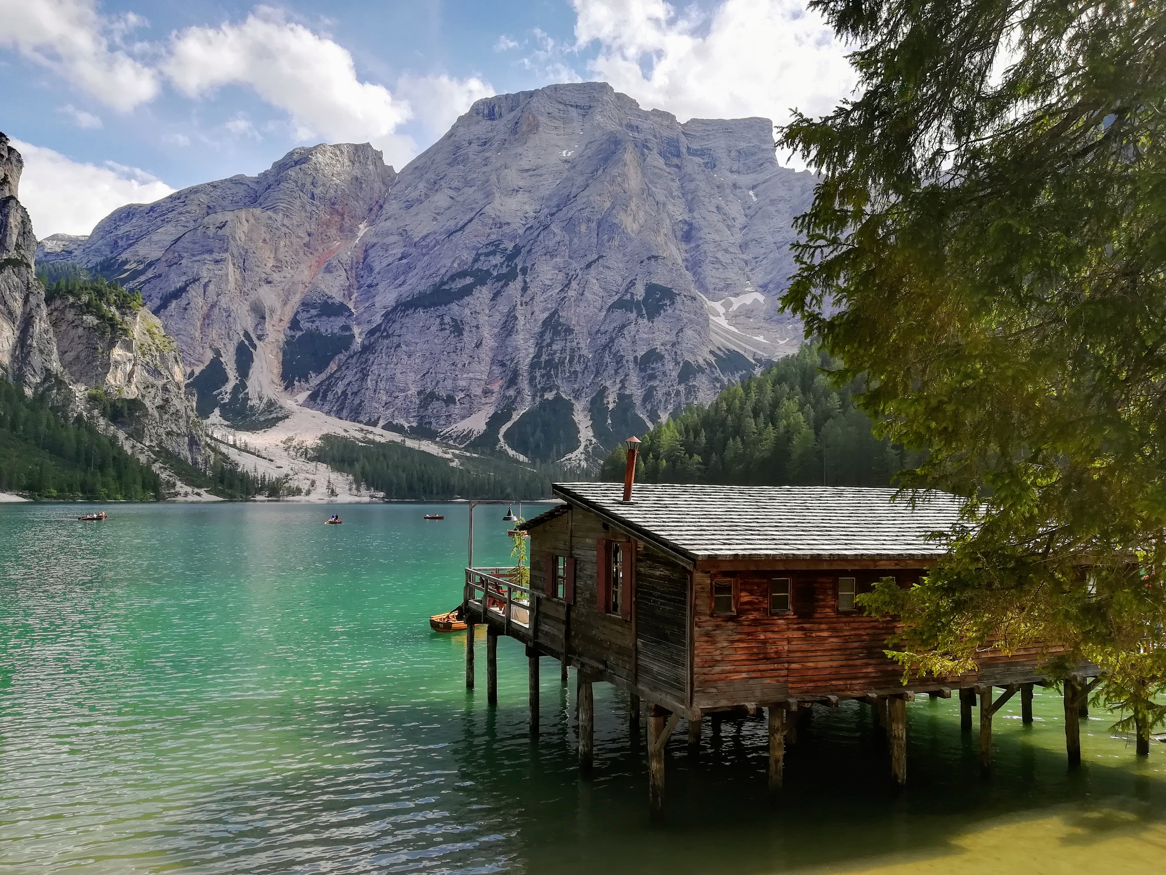 Buildings on piles in Prags lake, Italy